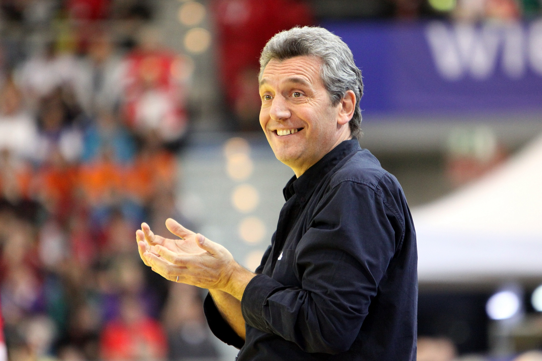 Claude Onesta (Teamchef), France national handball team